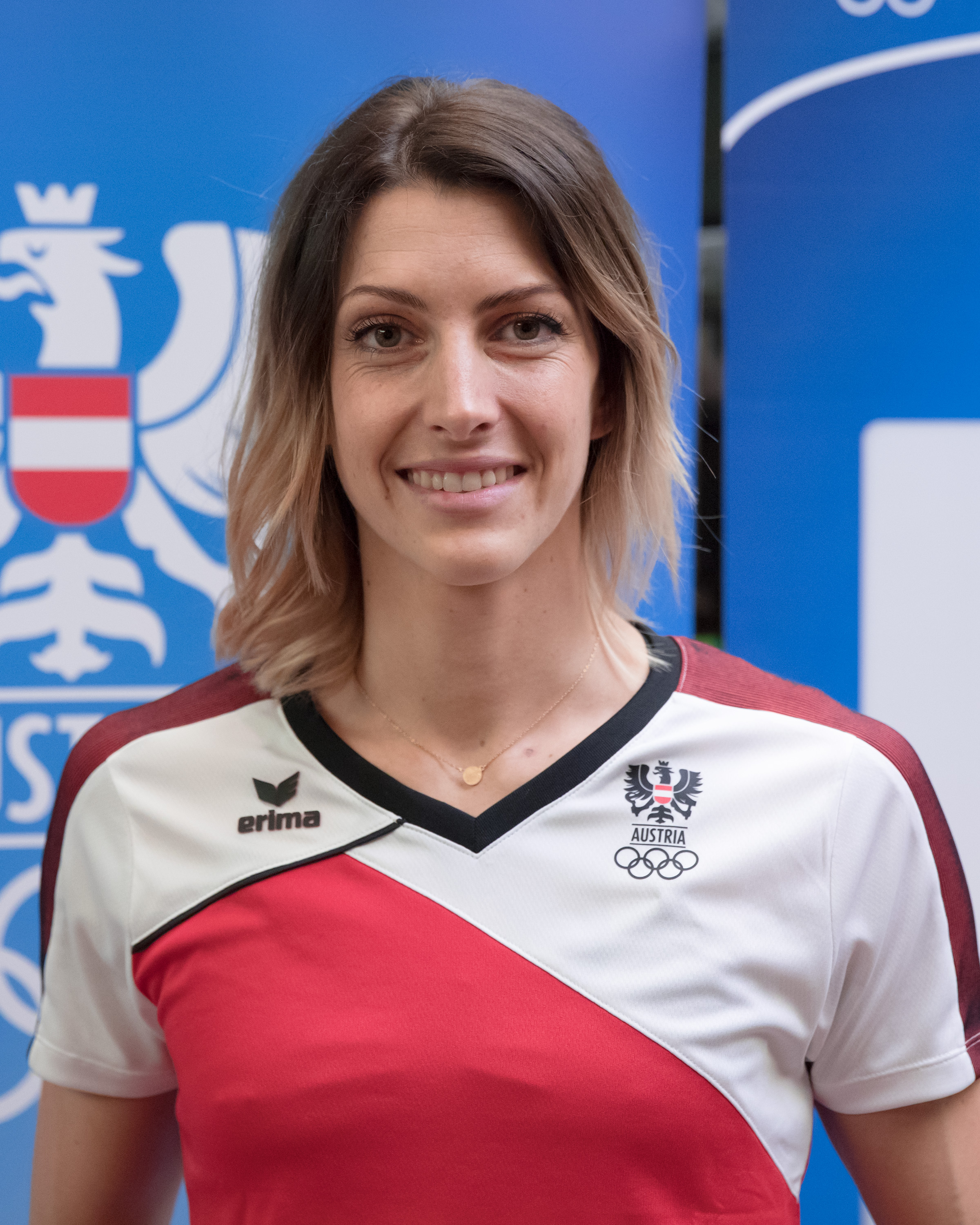 Janine Flock at the outfitting of the Austrian team for the 2018 Winter Olympics (Hotel Marriott in Vienna, Austria.